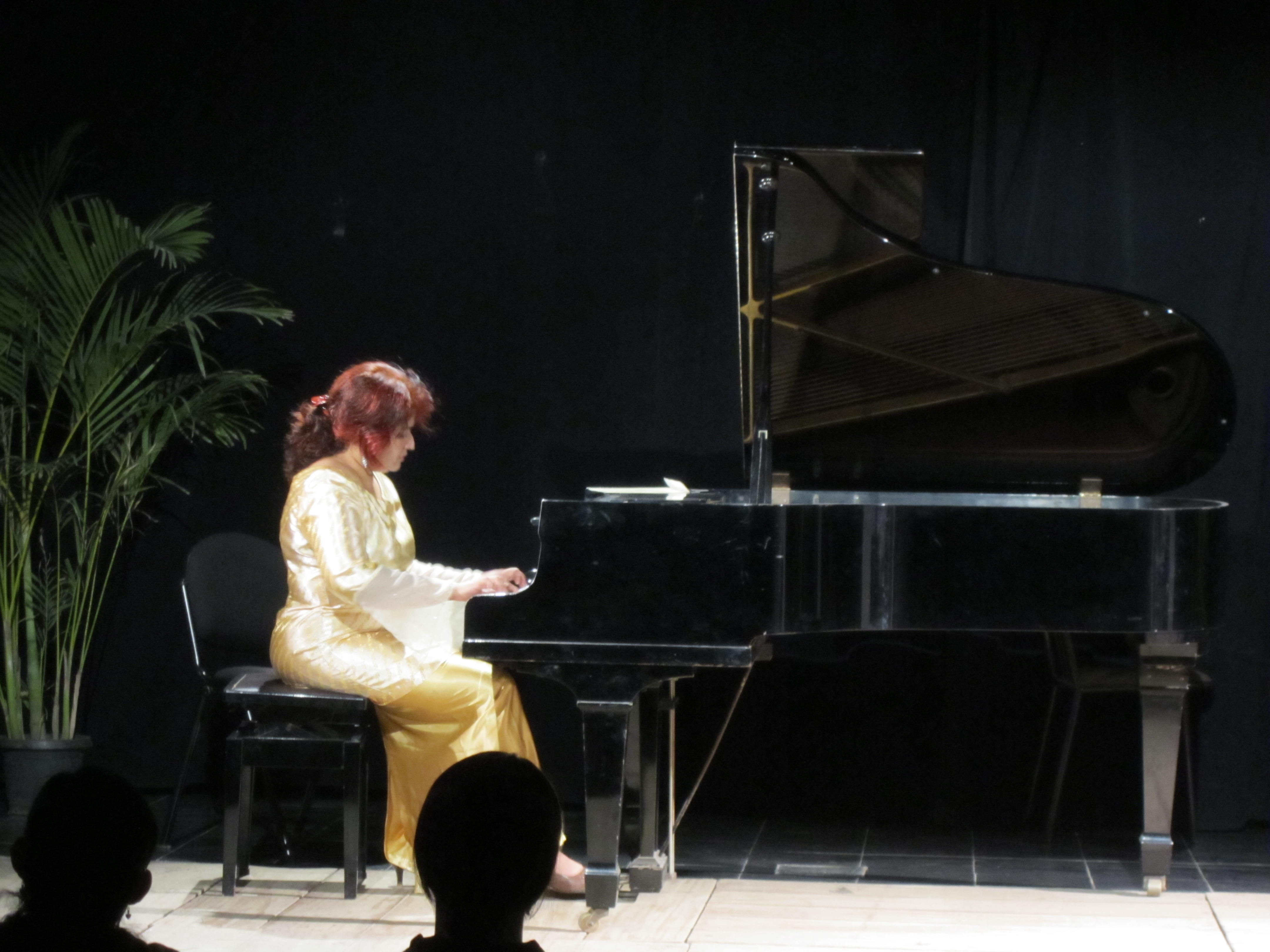 Majolly Music Trust First Anniversary Feb 11th 2012